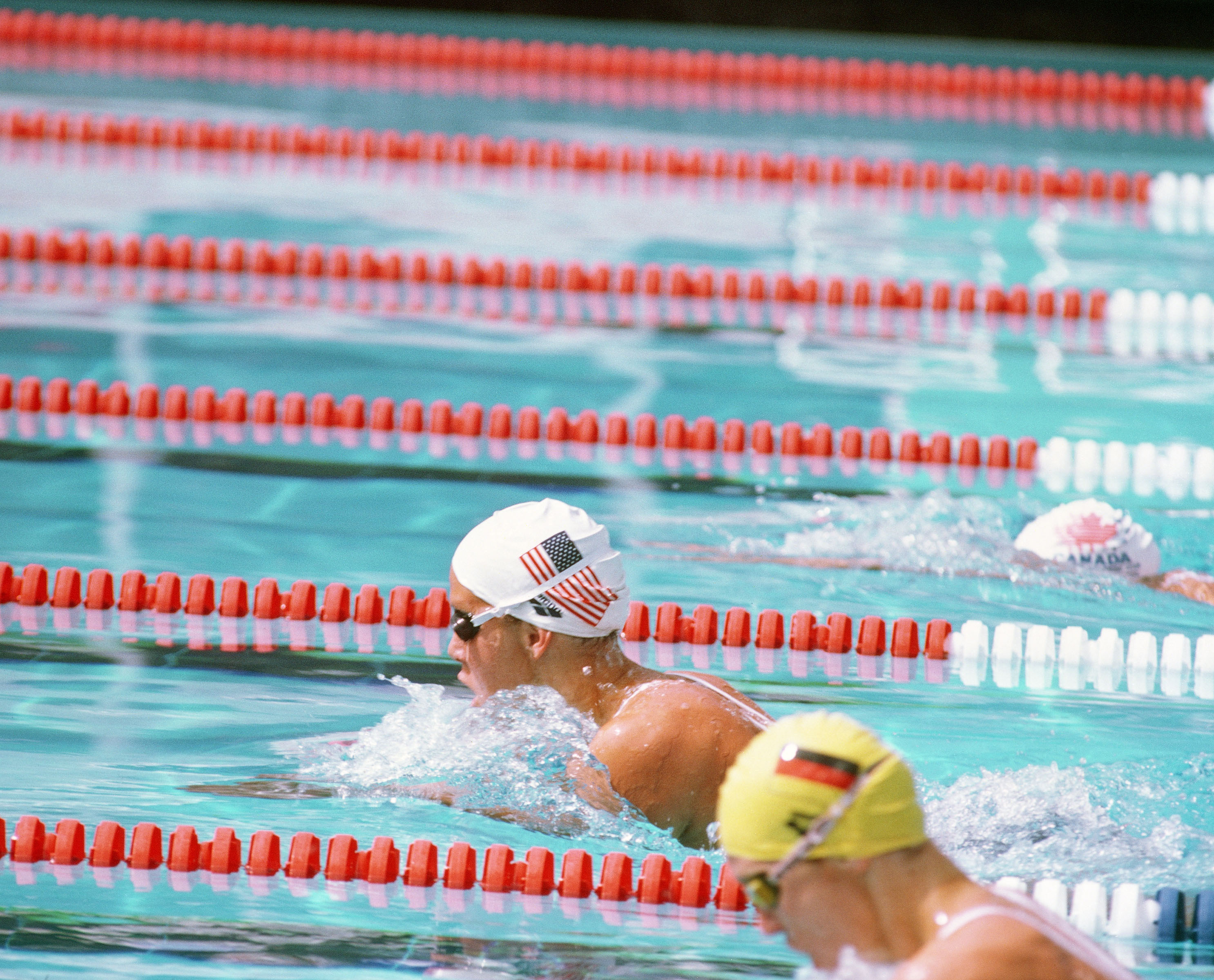 Susan Rapp participates in the swimming competition at the 1984 Summer Olympics. She won a silver medal for her performance in the 200 meter breaststroke.